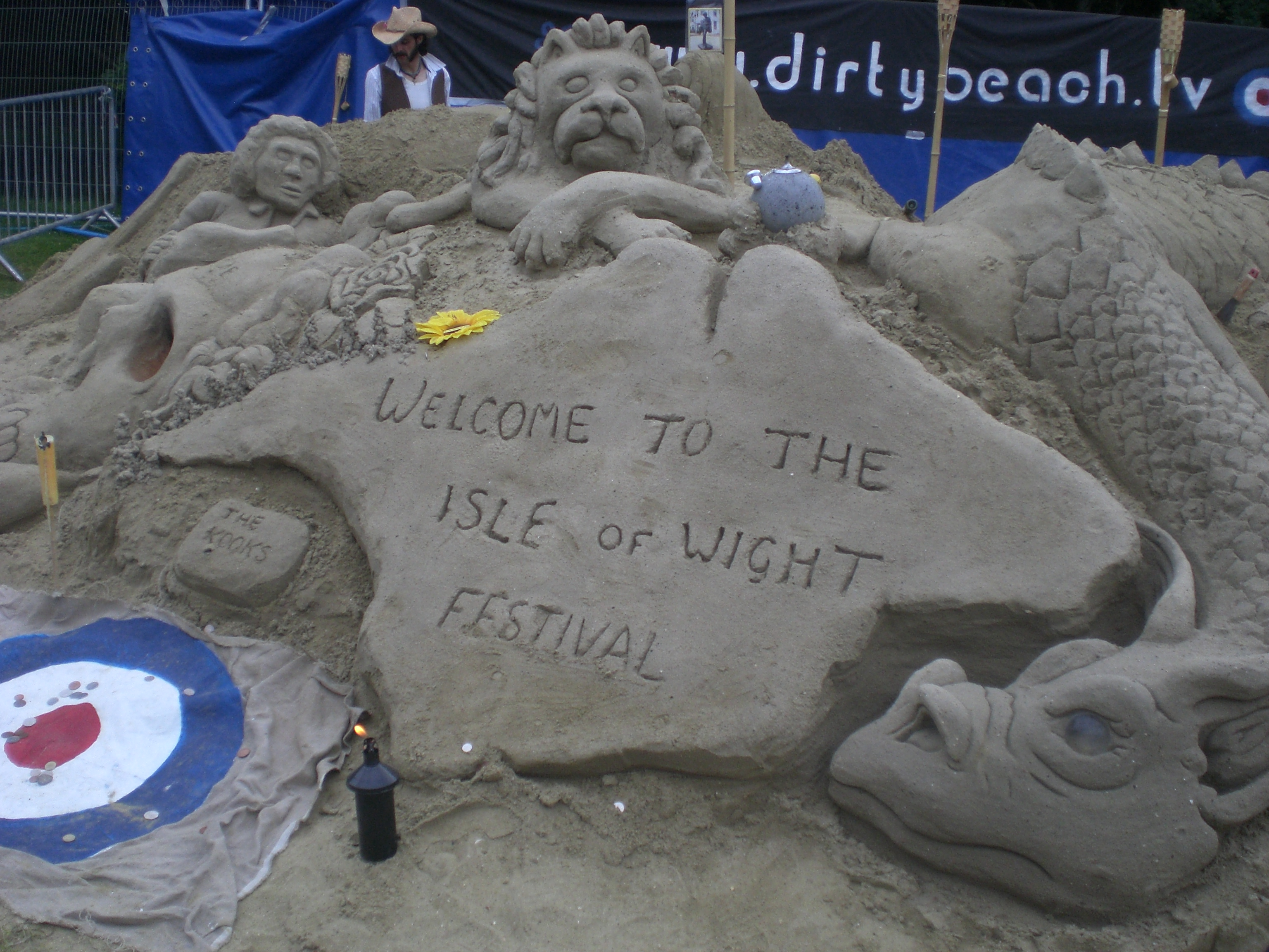 A sand sculpture at the Isle of Wight Festival in 2008.